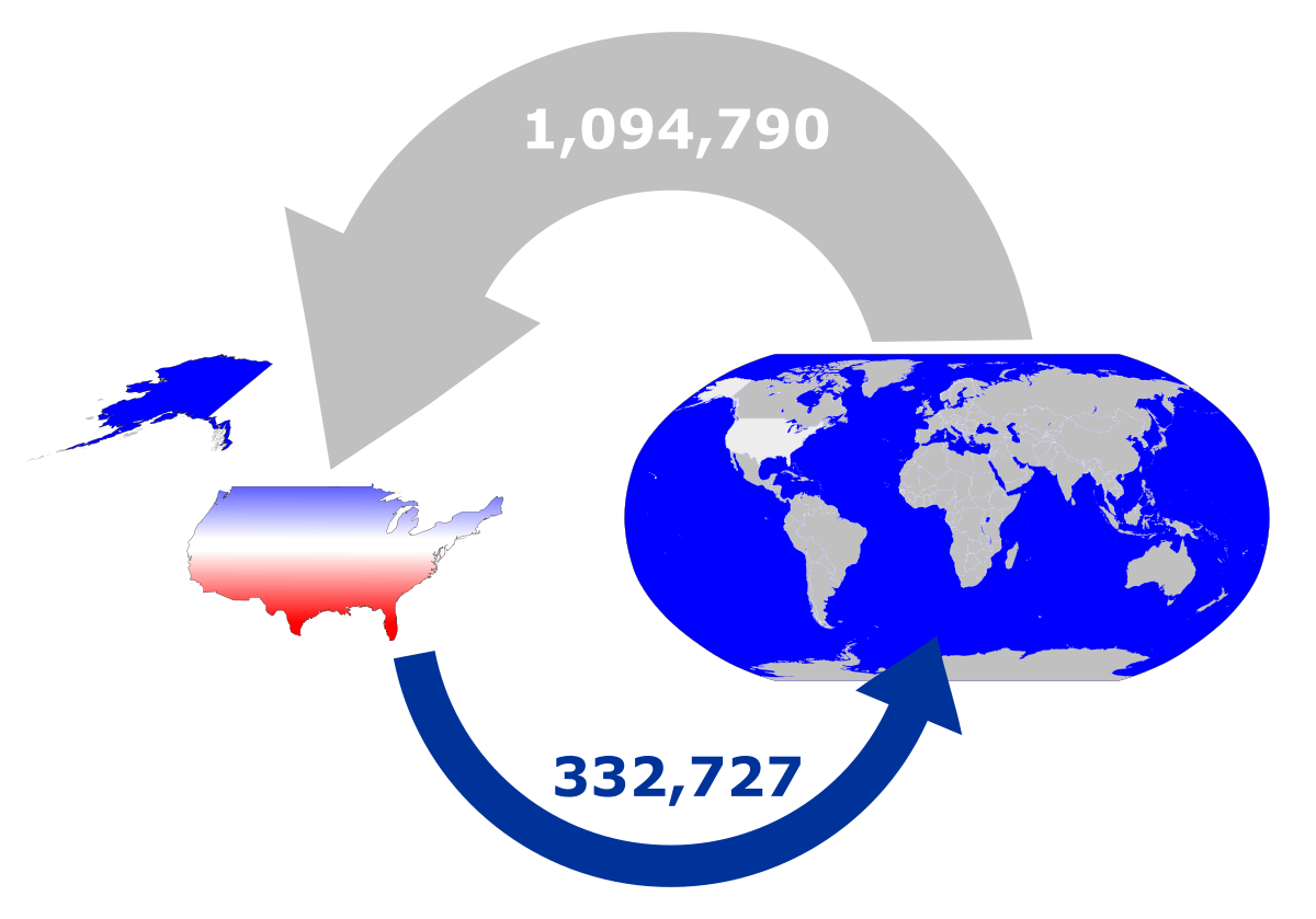 International College Students in the United States vs. American College Students Abroad, 2017